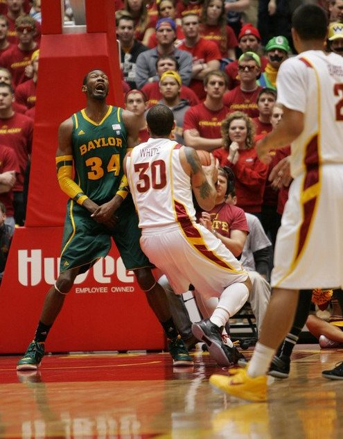 Cory Jefferson setting a pick against Iowa State